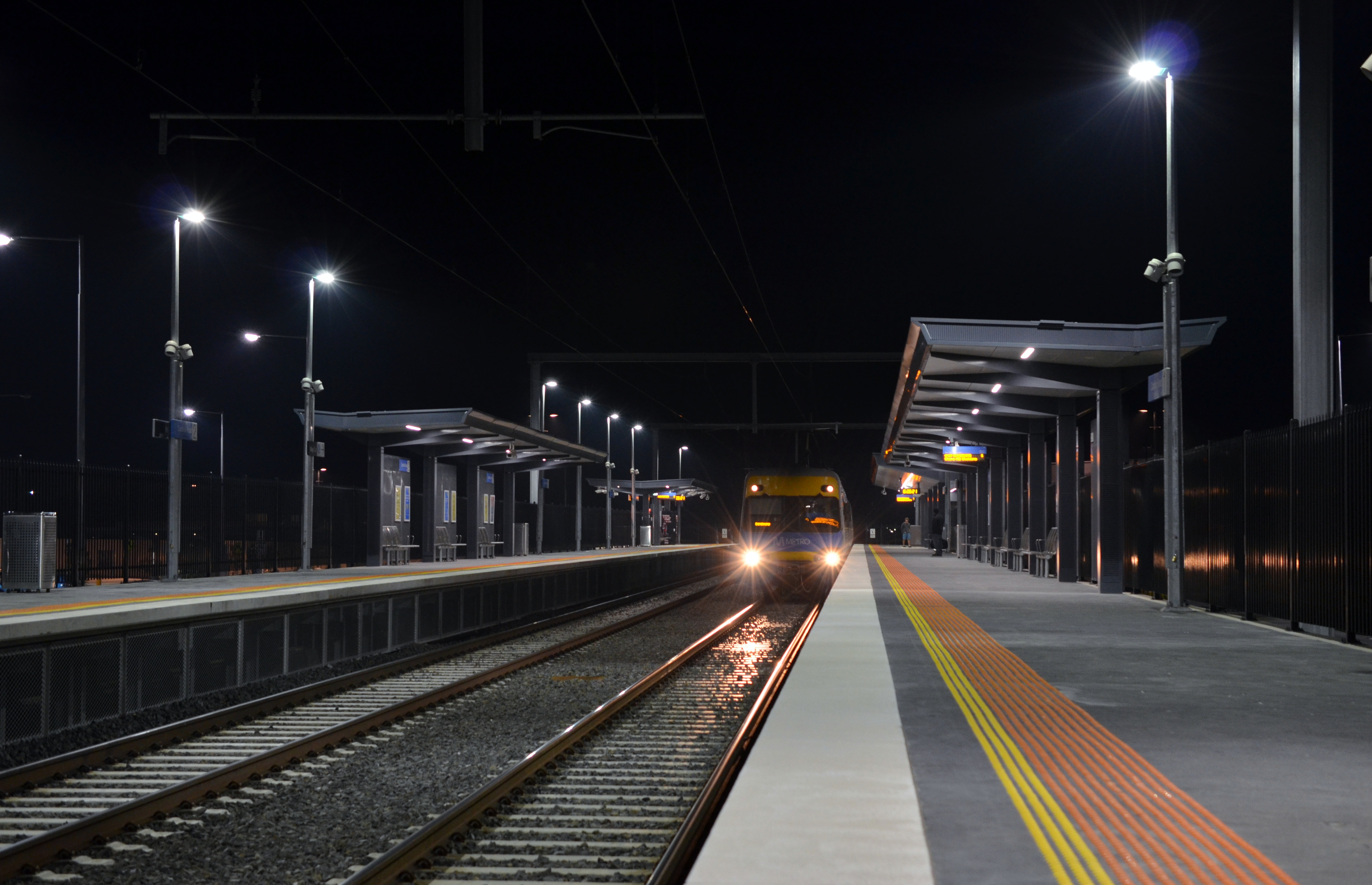 Comeng train passing through Cardinia Road station.